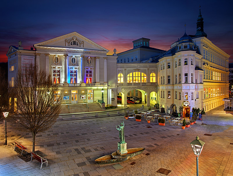 City Baden bei Wien, Stadttheater & Batzenhäusl